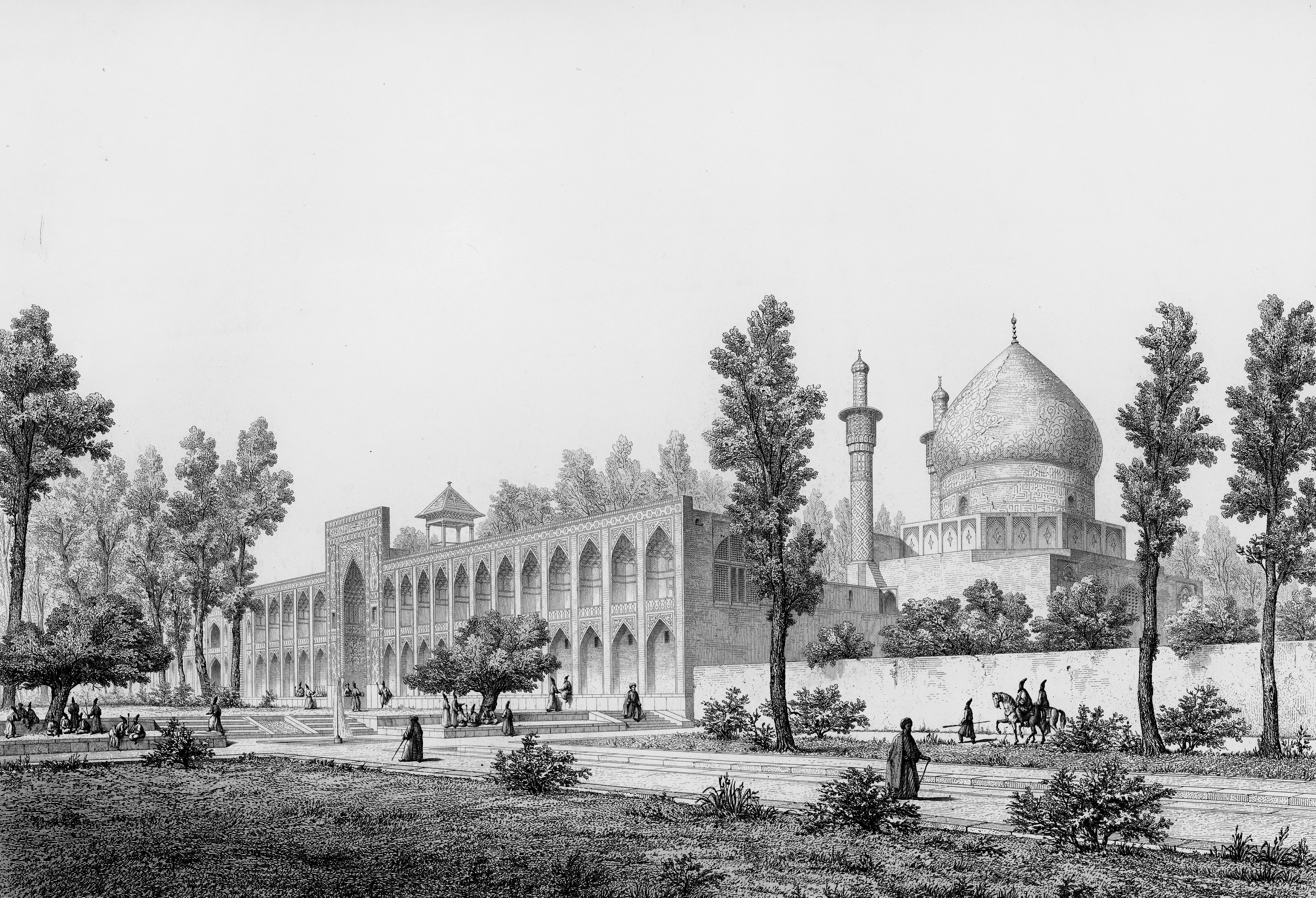 Drawing of Chahar Bagh School or School of Shah Hossein's Mother, as it was known in the 19th century